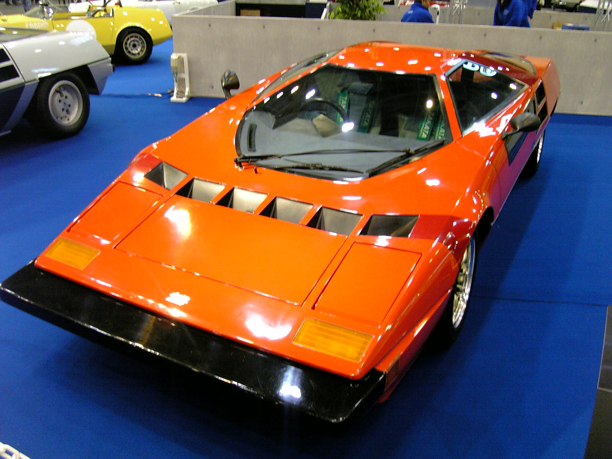 The Dome Zero P2 prototype-car being exhibited in Japan. Owner: Dome